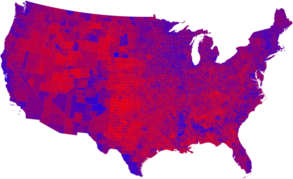 2008 popular vote by county. Brighter red represents a higher percentage of the vote for McCain, while darker blue represents a higher percentage of the vote for Obama